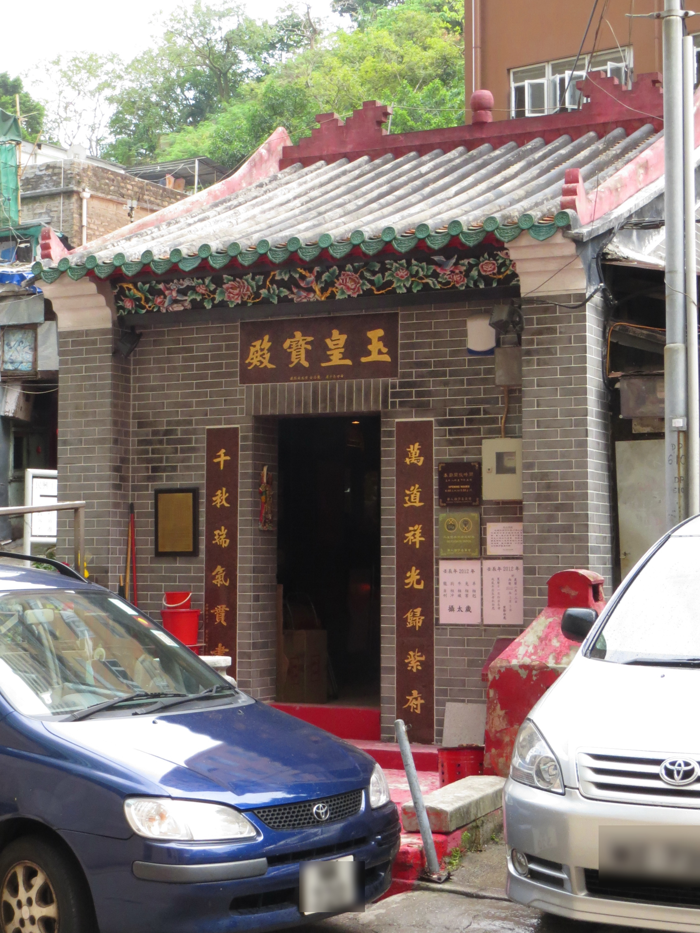 Yuk Wong Kung Din, Shau Kei Wan, Hong Kong.